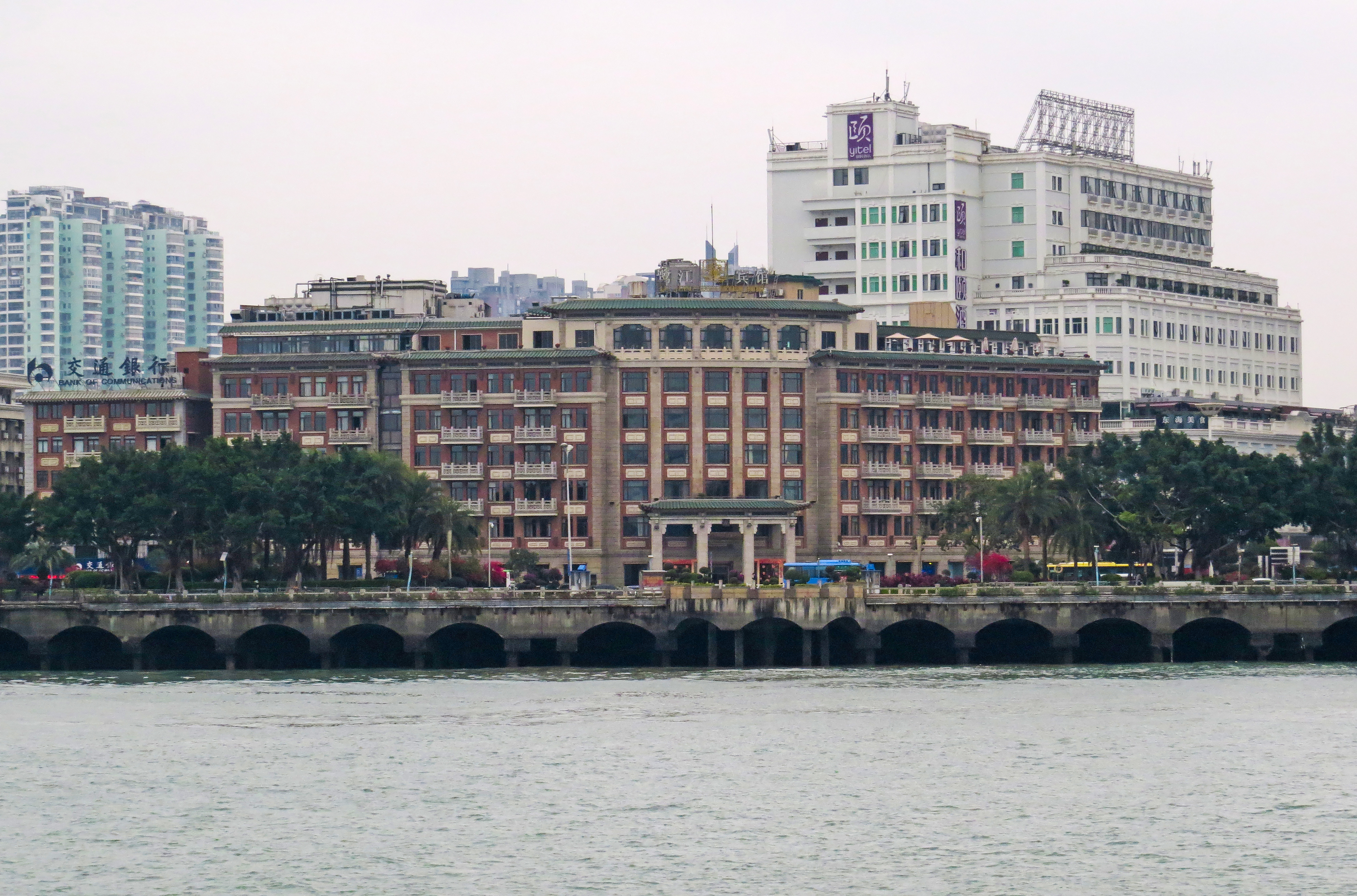 Taken on the ferry to Gulangyu.